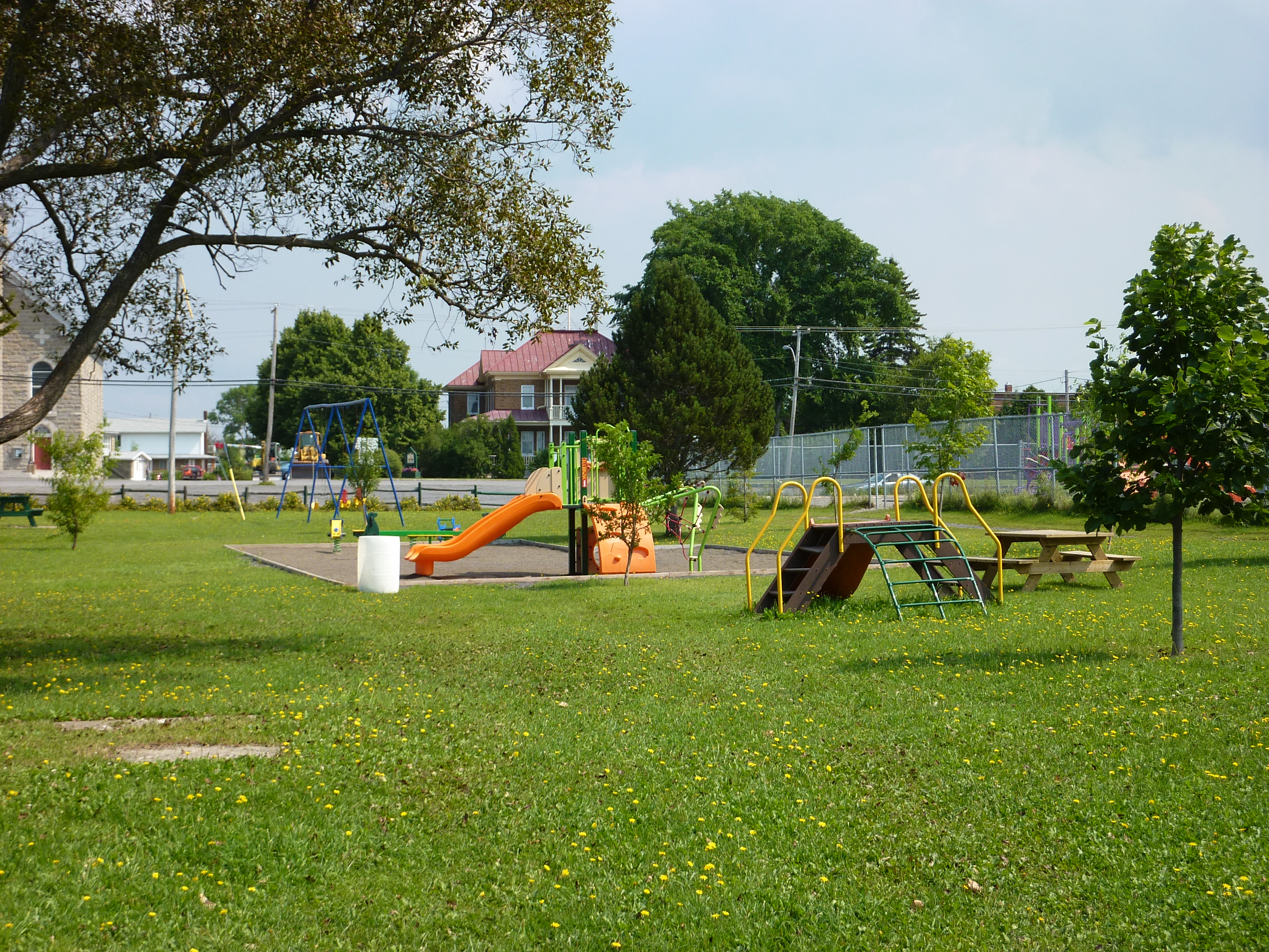 Tournant-de-la-Rivière park at Sayabec, Qc